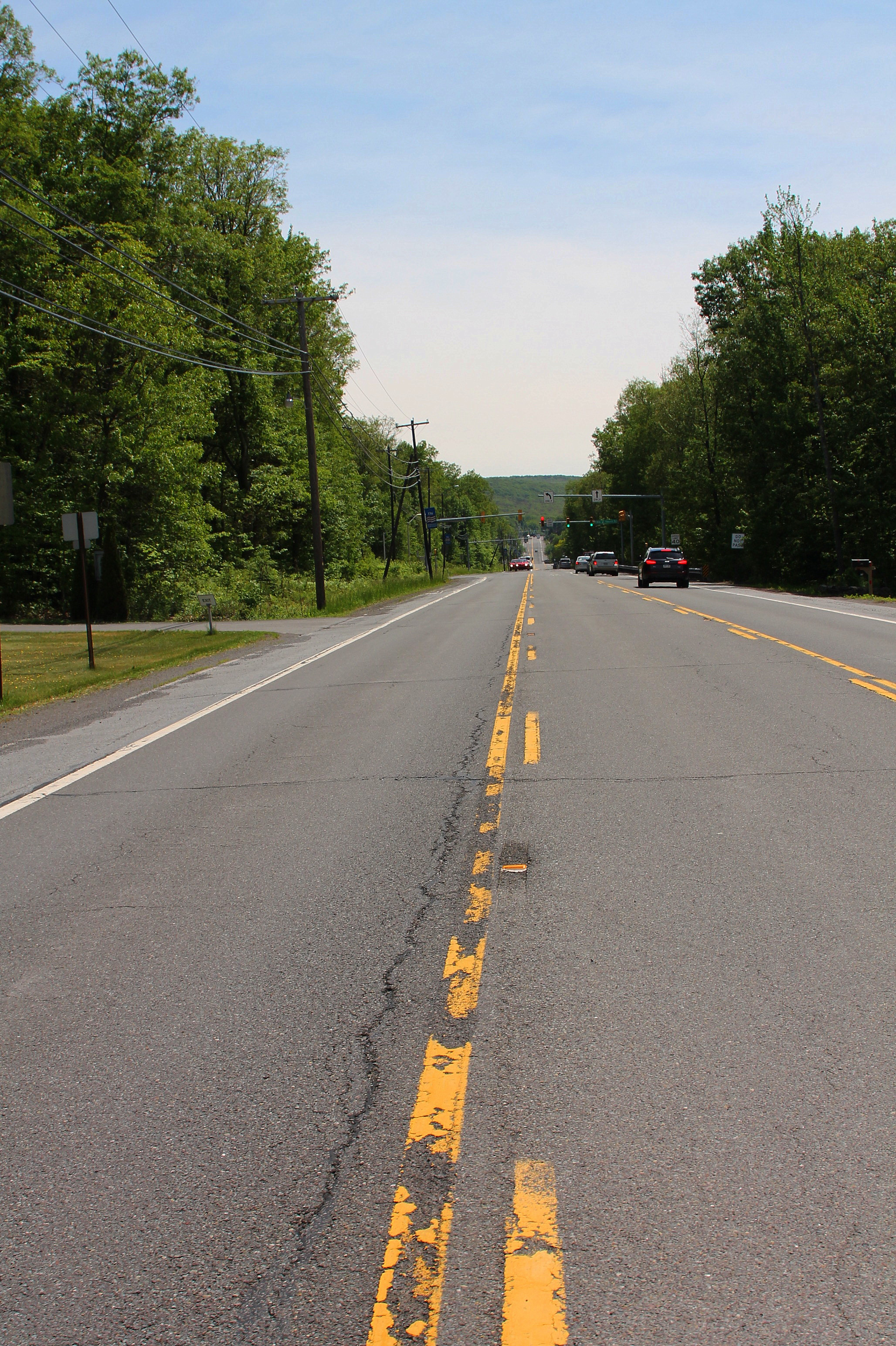 Pennsylvania Route 309 south in Wright Township, Luzerne County, Pennsylvania